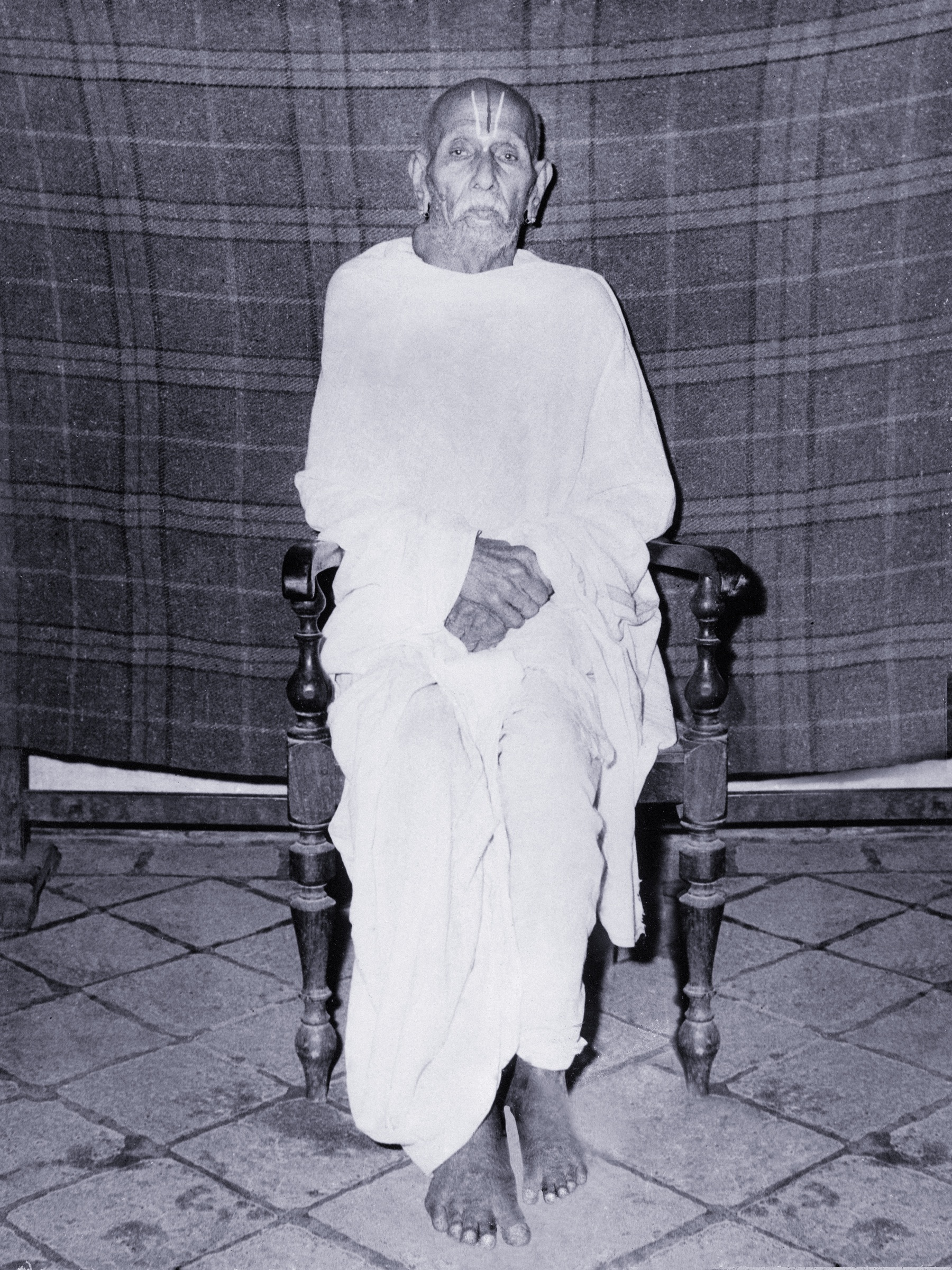 Kundalam Vidwan Rangachari